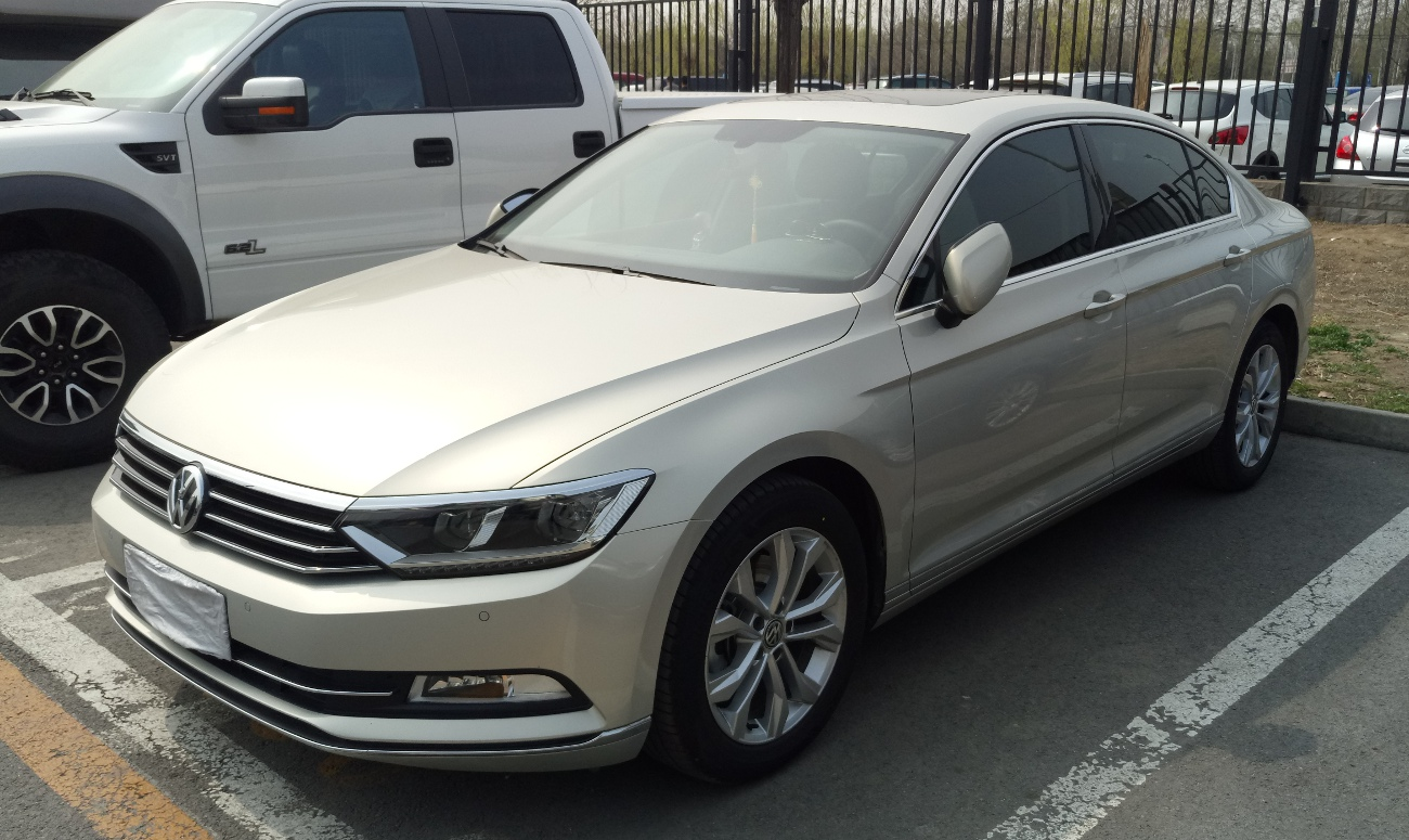 Volkswagen Magotan B8L photographed in Beijing, China.